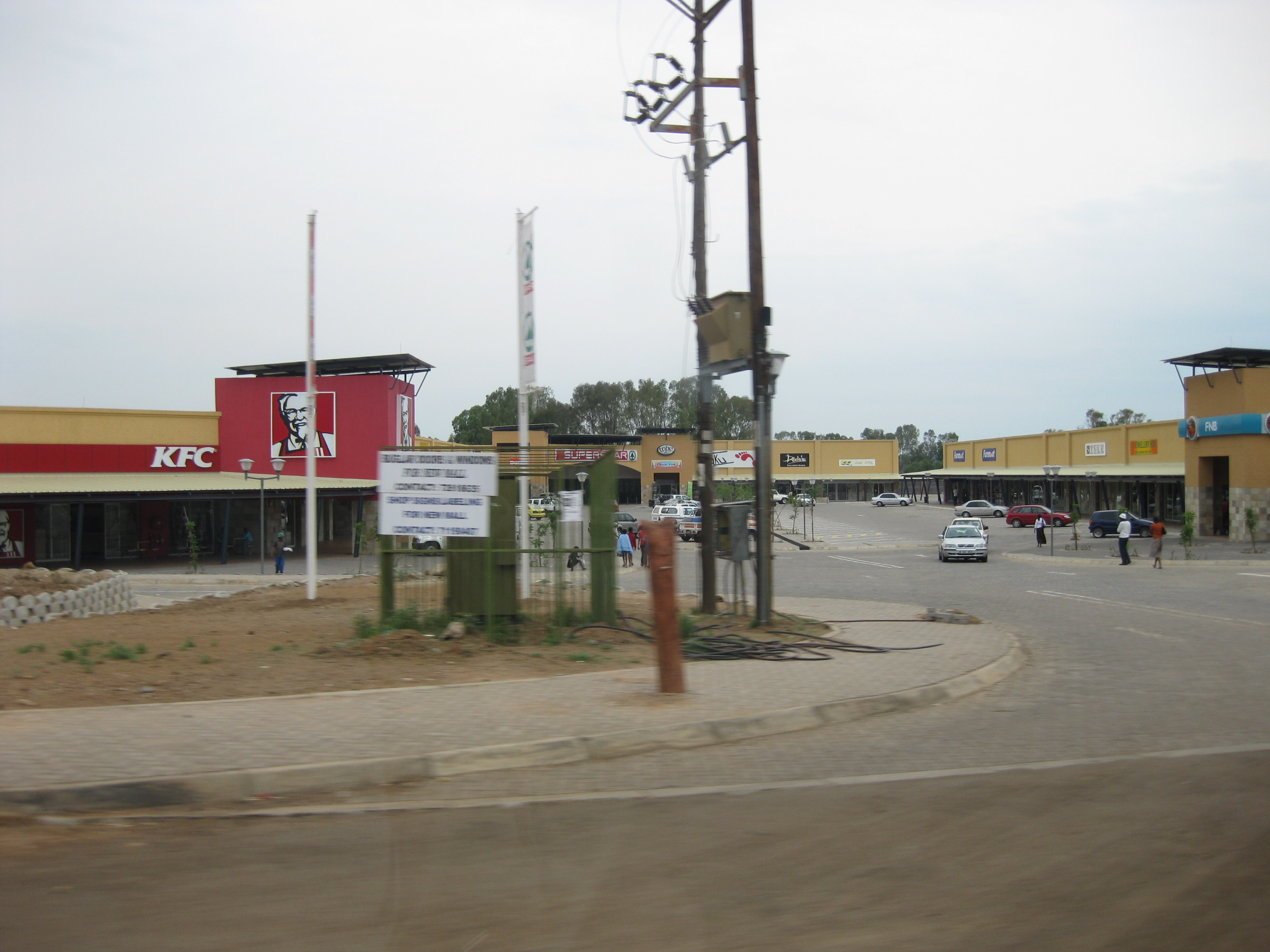 Picture taken by me, October 2009.